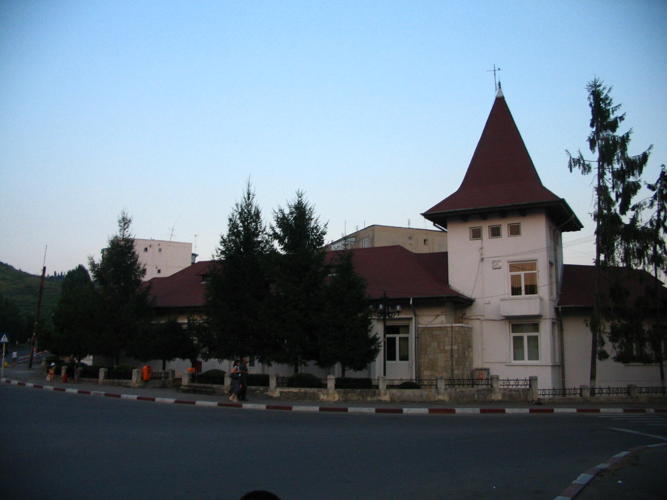 Former town hall in Boldeşti-Scăeni, Romania